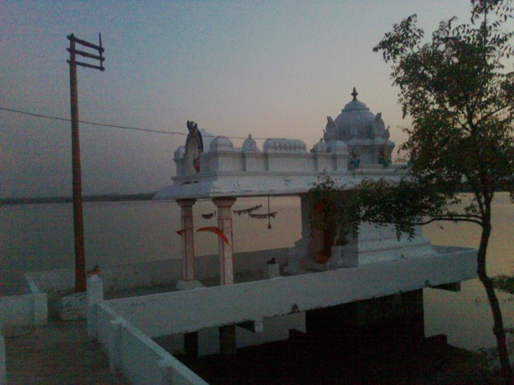 Gangamma temple at Raikal cheruvu